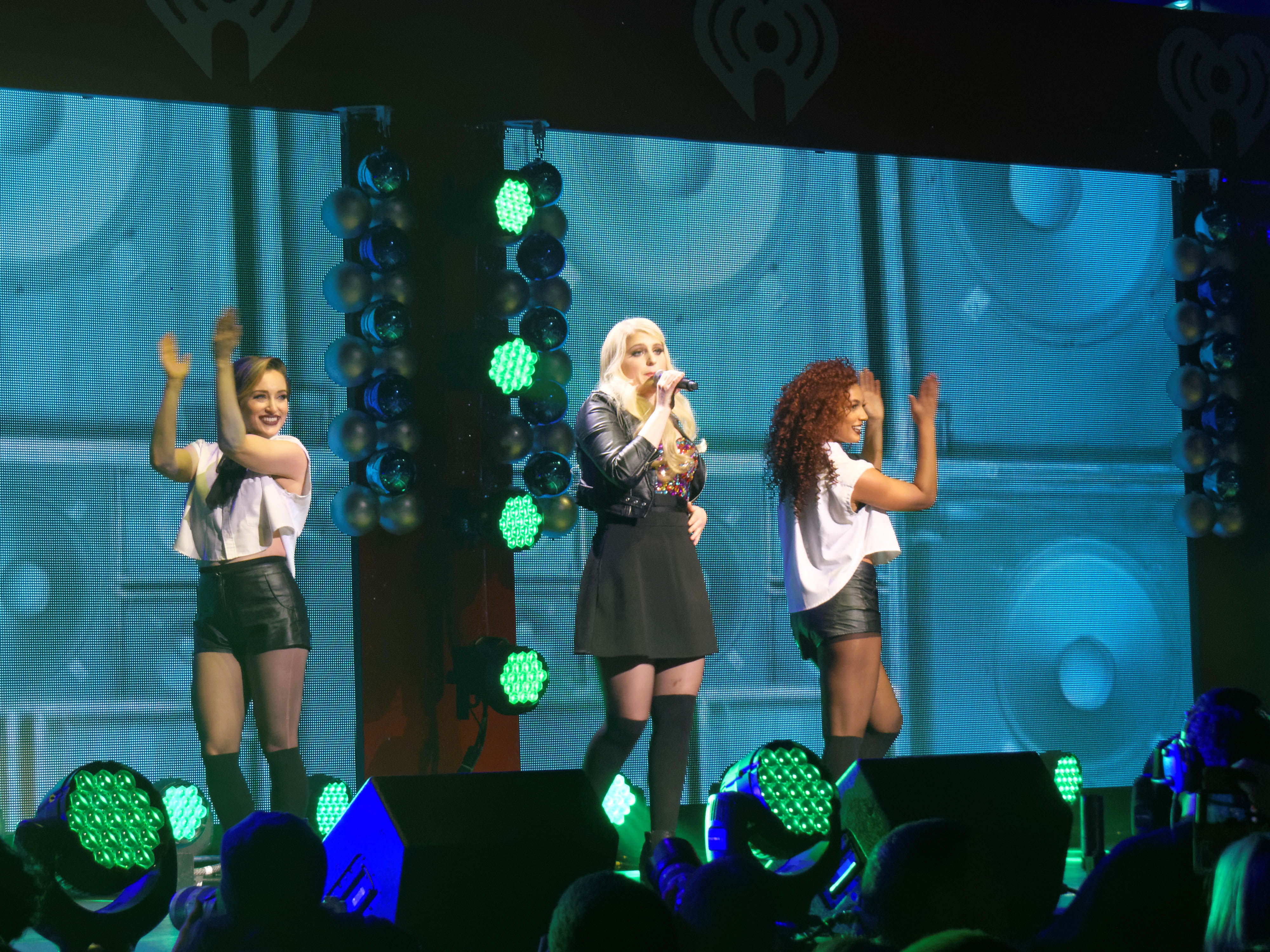 Q102 Philly Jingle Ball 2014